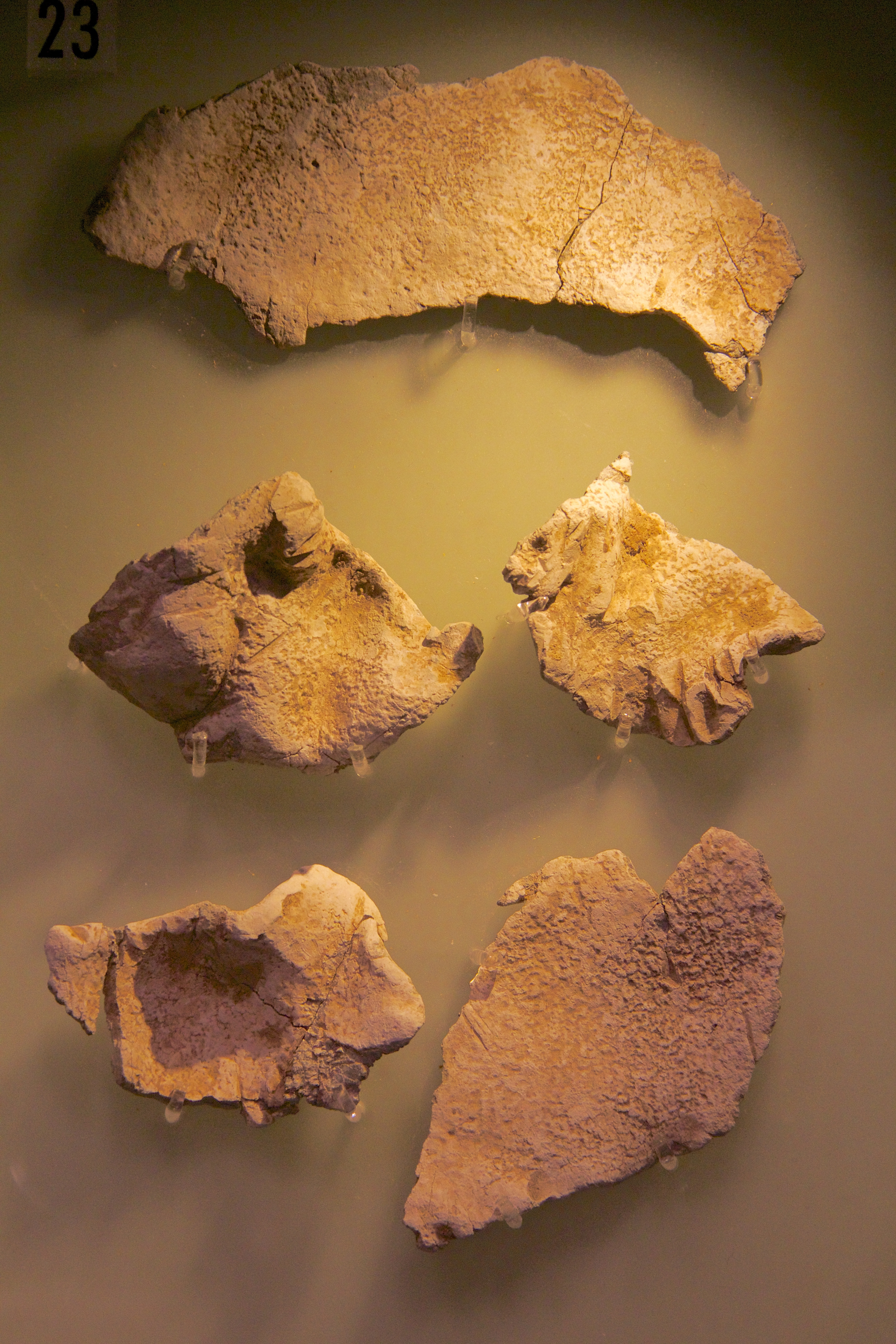 Huxley Hoard. Silver bracelets. On display in the Museum of Liverpool.